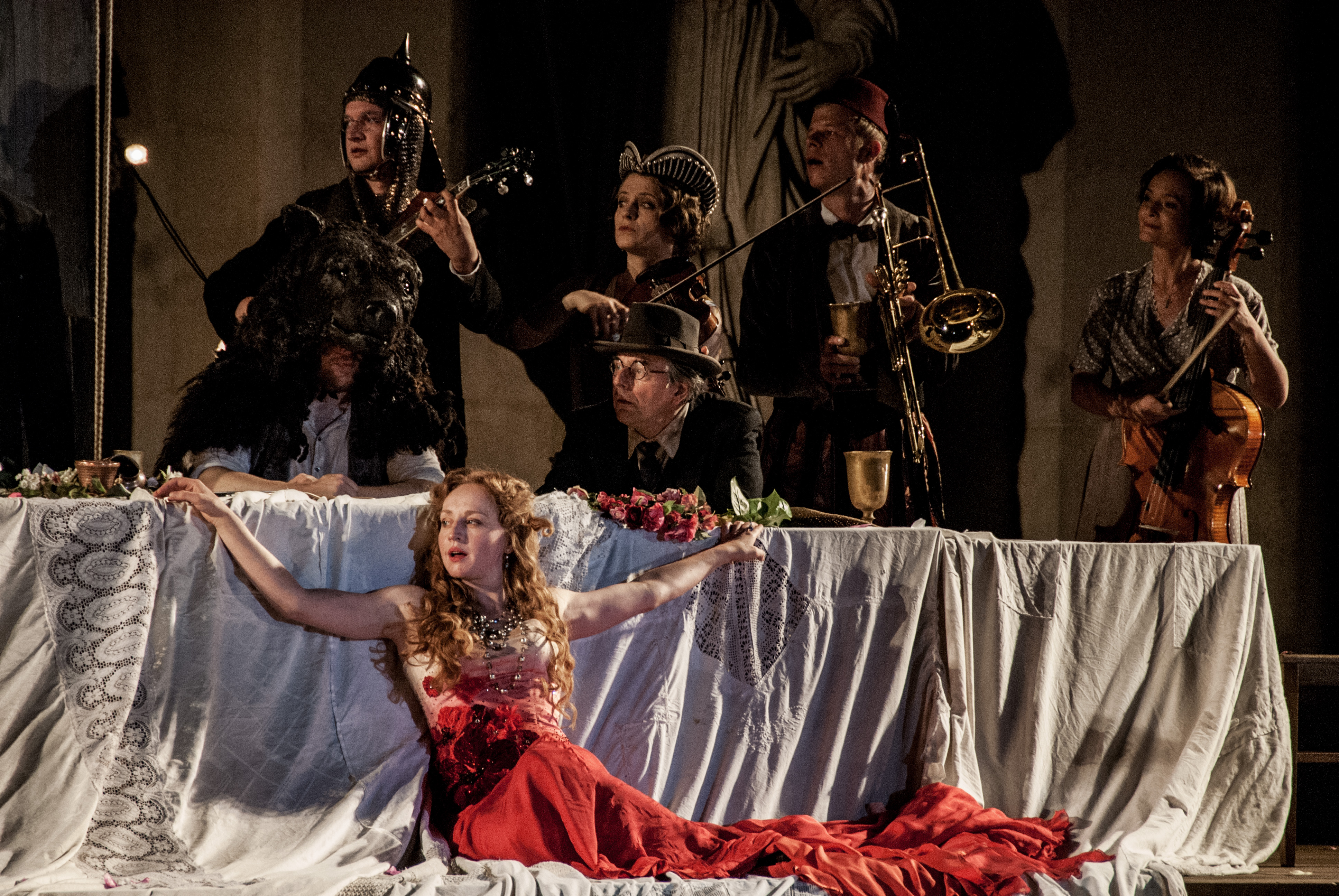 Tischgesellschaft of Jedermann, with Brigitte Hobmeier as Buhlschaft, Salzburger Festspiele 2014